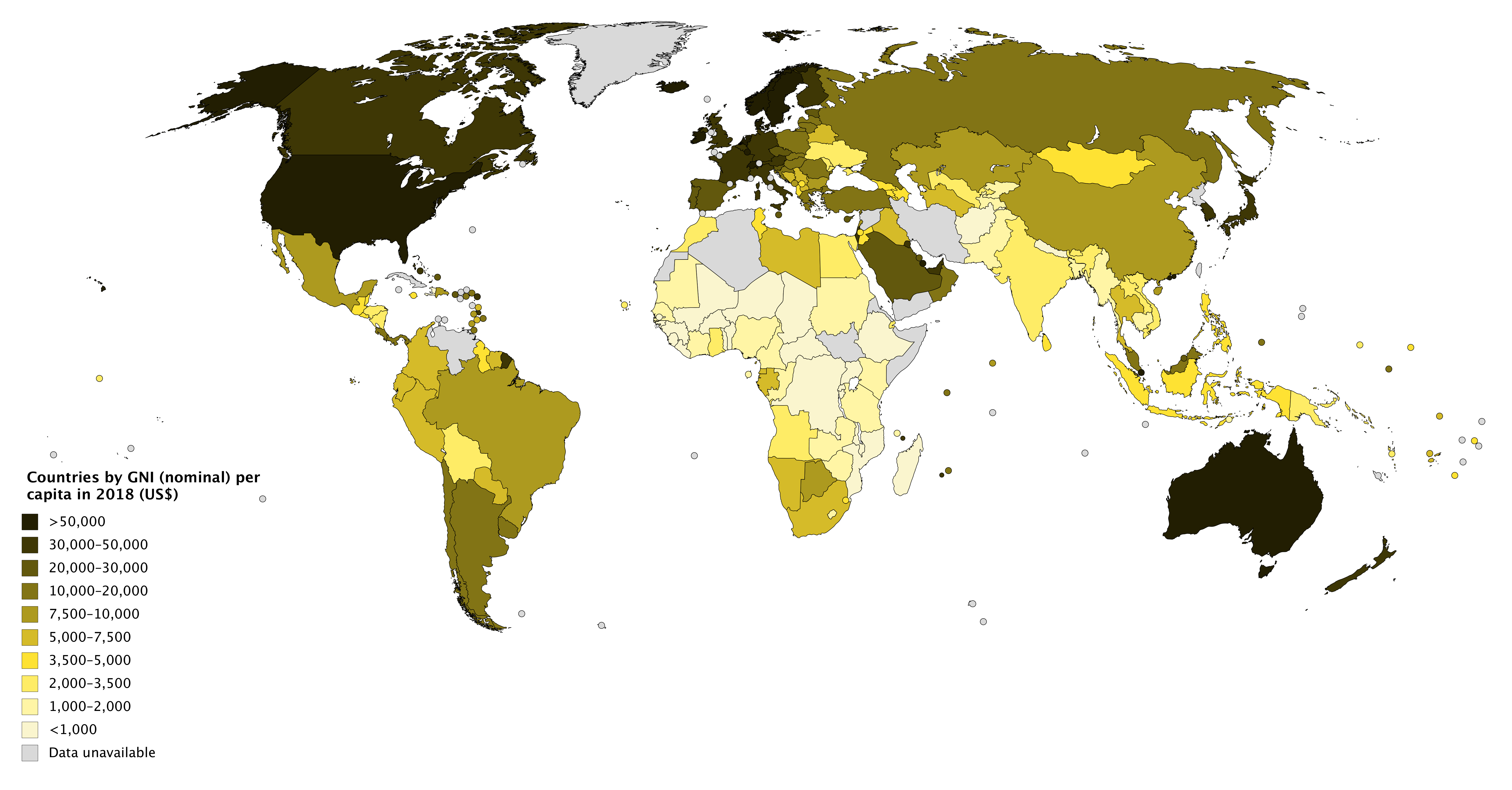 A choropleth world map showing gross national income per capita at nominal values in 2018, according to the Atlas method, based on data from the World Bank.